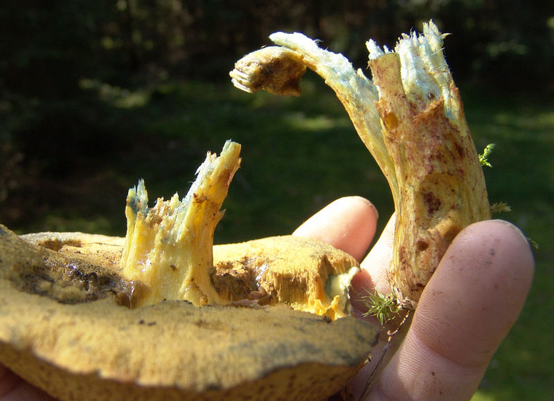 Flesh consistency of Suillus variegatus - see below for details.